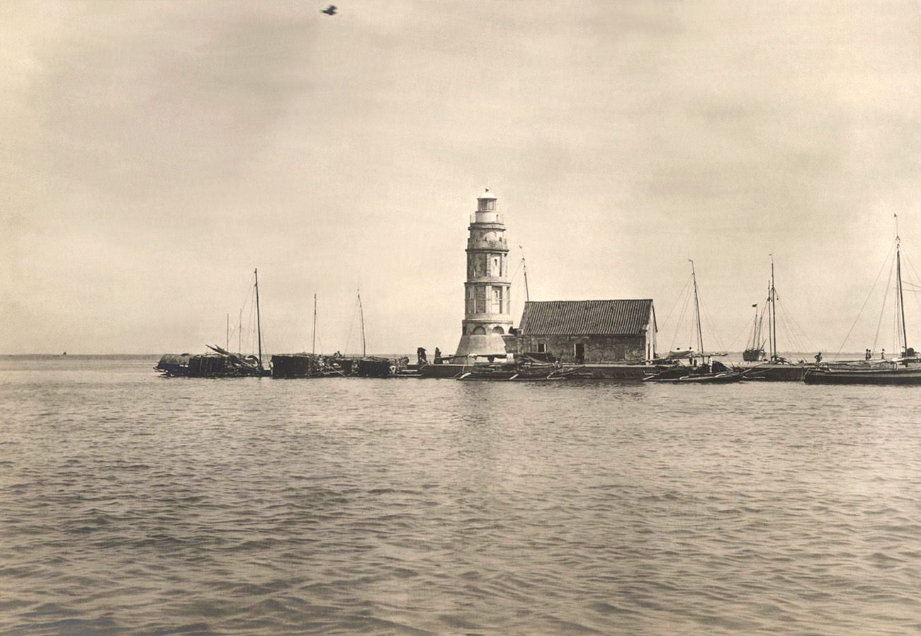 Pasig River Light, the first lighthouse in the Philippines, was built in 1846 by the Spanish government. It was demolished in 1992.